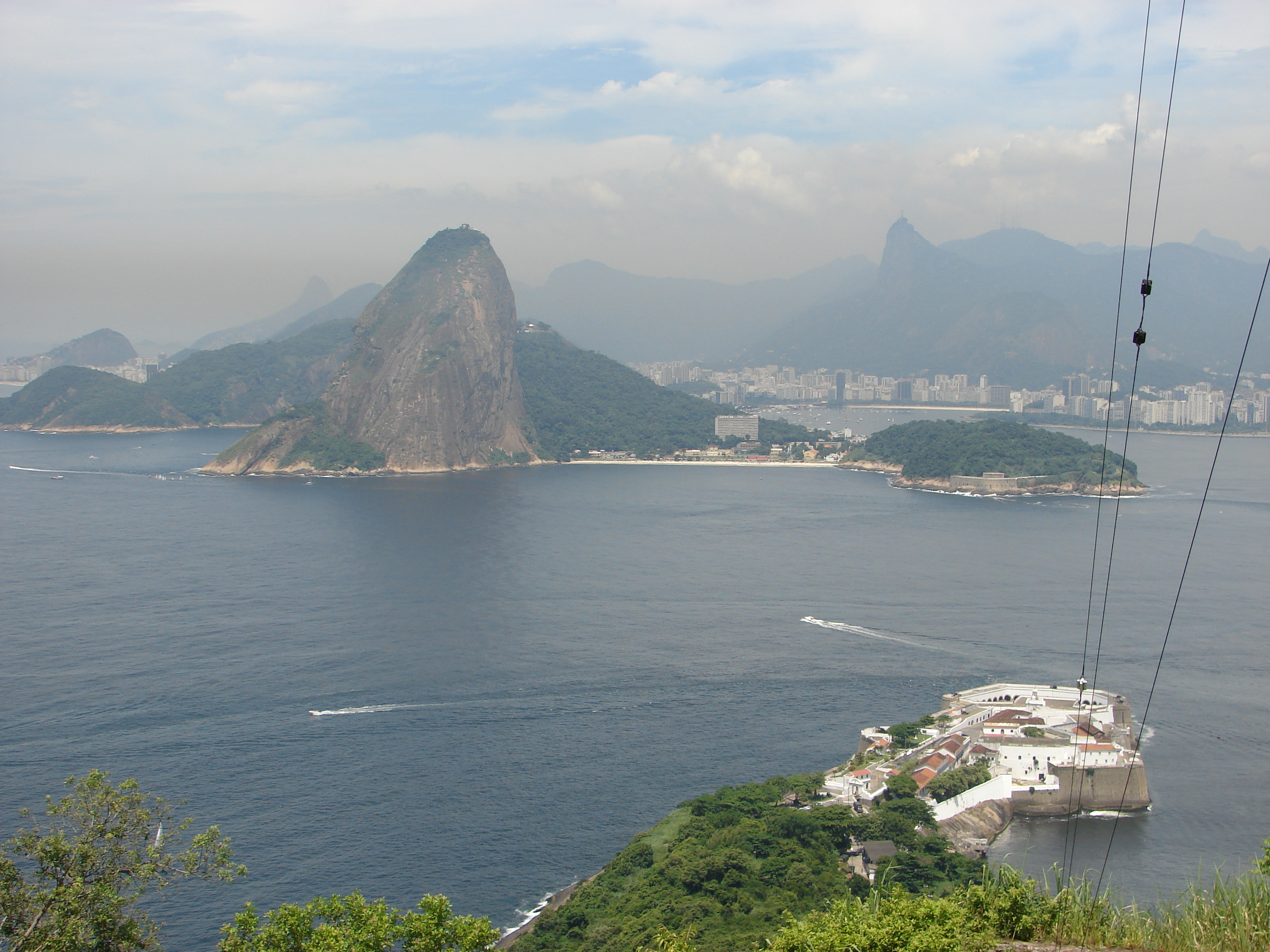 Santa Cruz fort and the opening of the Guanabara bay